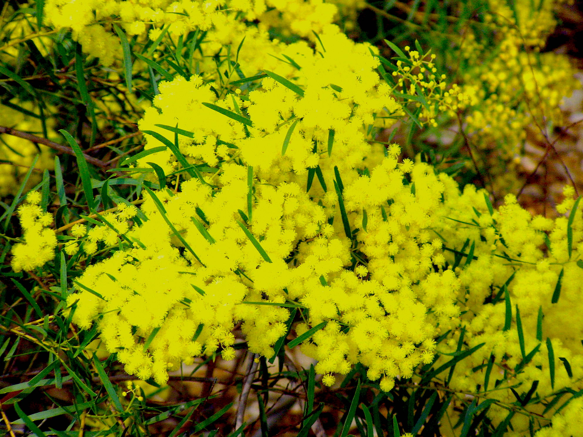 Description: Fringed Wattle (Acacia fimbriata) Location: Australian National Botanic Gardens, Canberra, Australian Capital Territory, Australia Date: 2005-09-21 Source: picture taken by Danielle Langlois Licence: Released under GFDL and Creative Commons licenses by the photographer